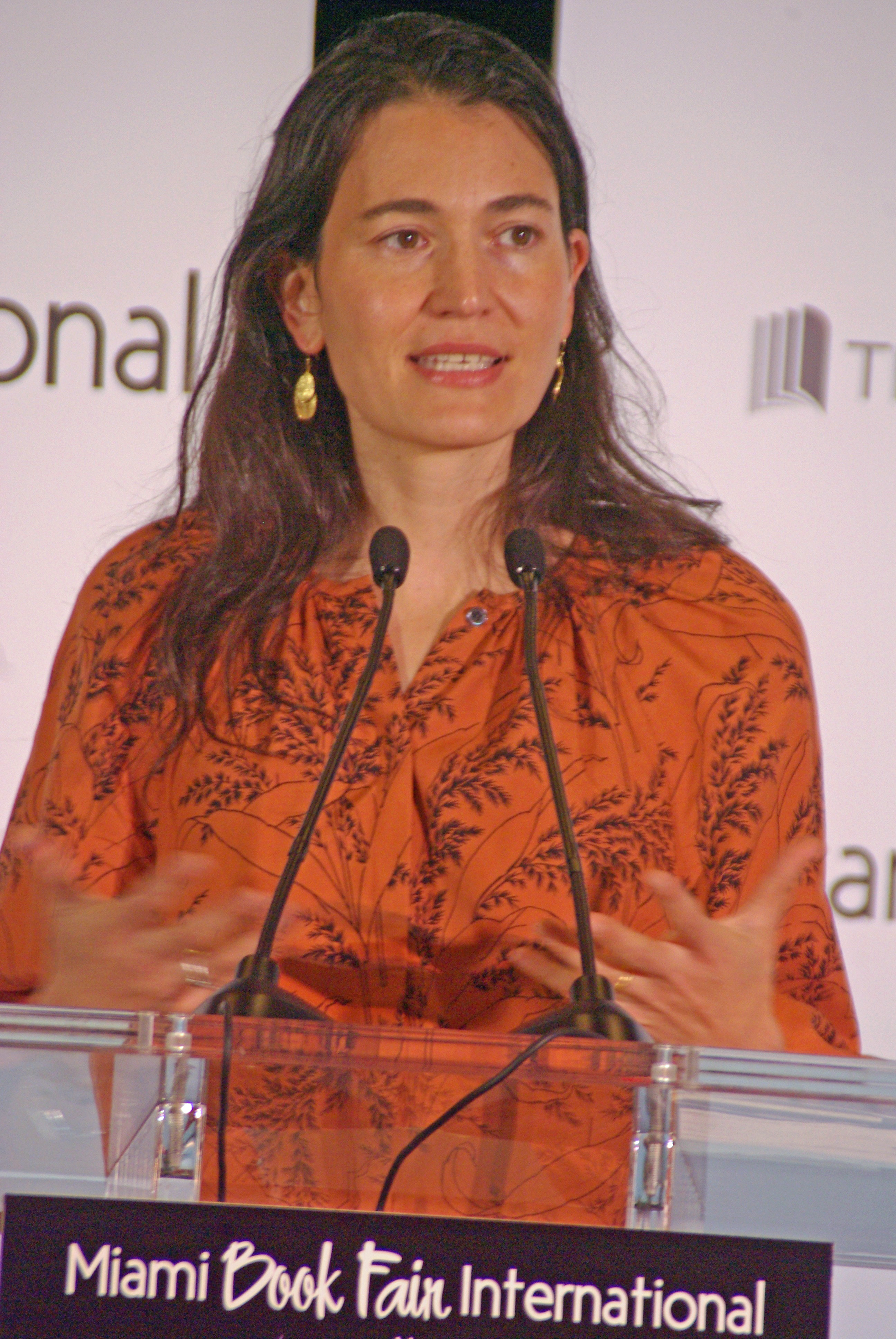 American writer Nicole Krauss at the Miami Book Fair International 2011